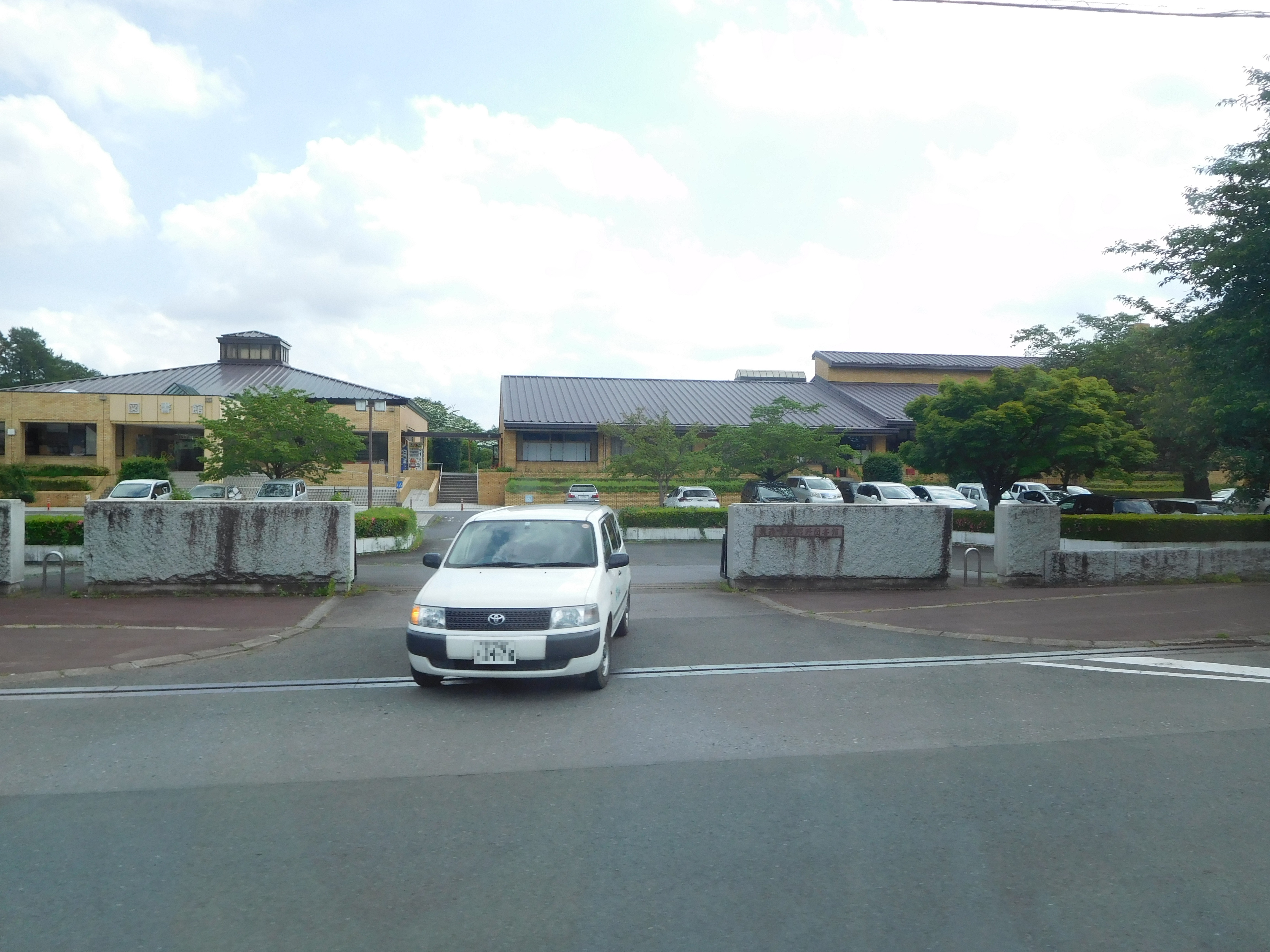 This is Chikusei Public Library Akeno Library in Chikusei, Ibaraki, Japan.